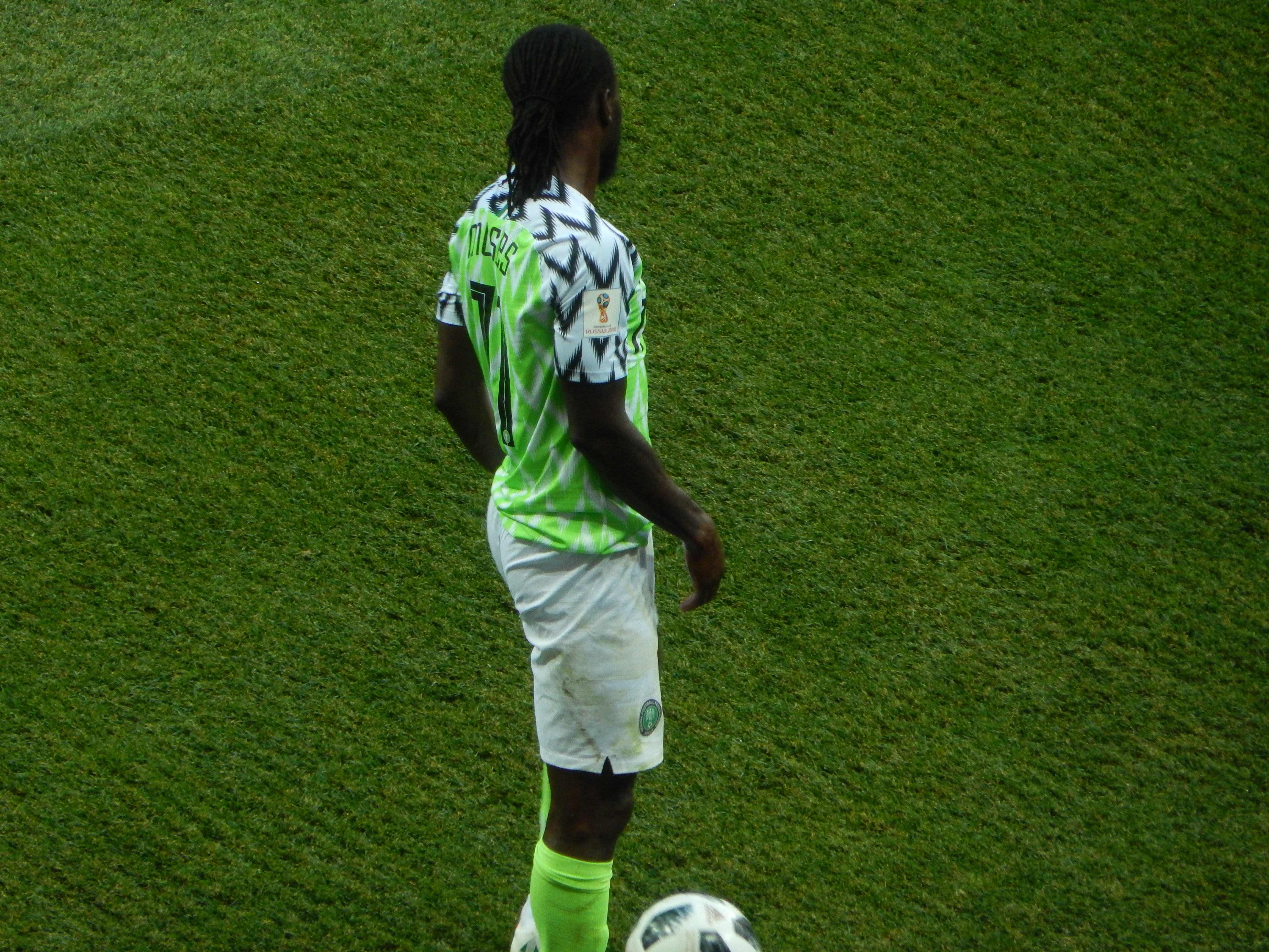 FIFA World Cup 2018, Group D, Nigeria vs. Iceland